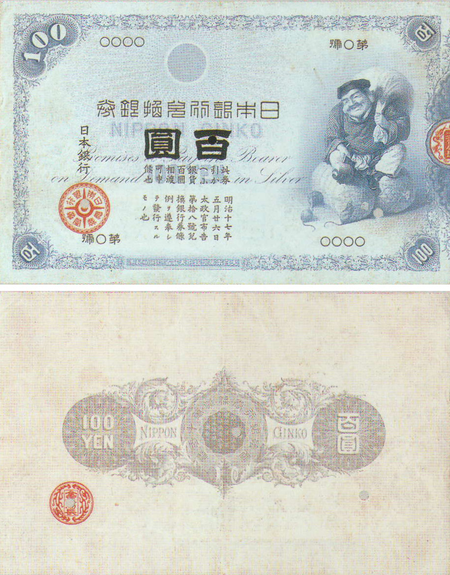 hundred yen convertible banknote (1885)